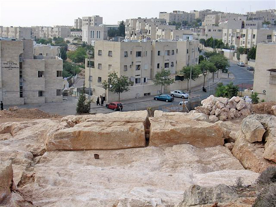 A stone-quarry that was found in Jerusalem Israe, May 2007, probably supplied stones for building the Second Temple.